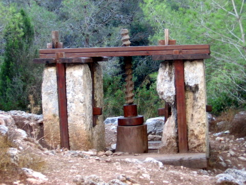 Restored olive press in the Roman emperor